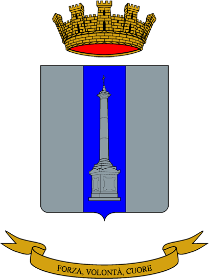 Coat of Arms of the Transit Areas Management Regiment (former: Logistic Battalion "Centauro"); Italian Army.